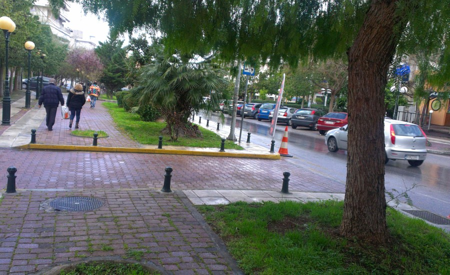 dromos-dafni